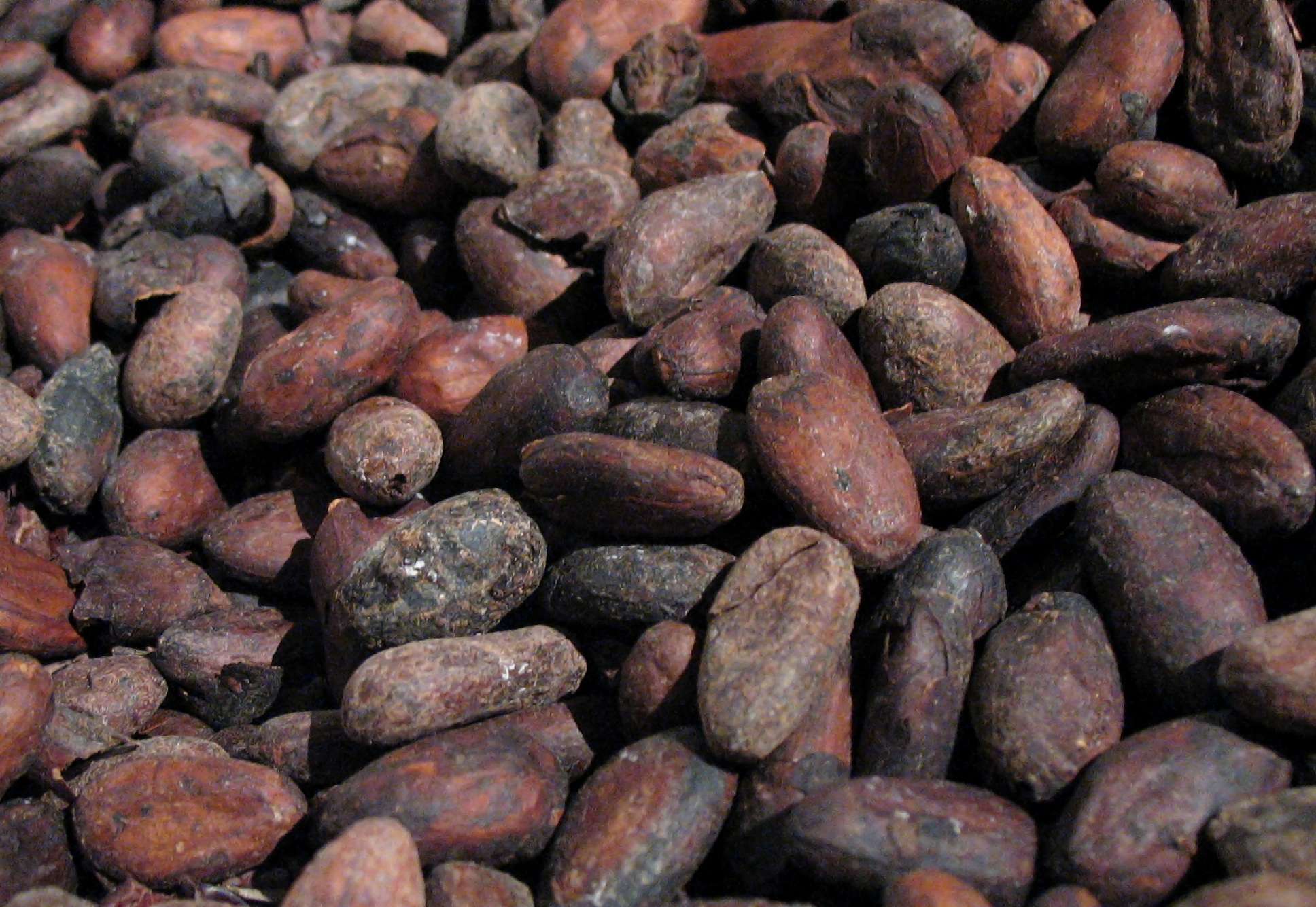 Roasted cocoa (cacao) beans